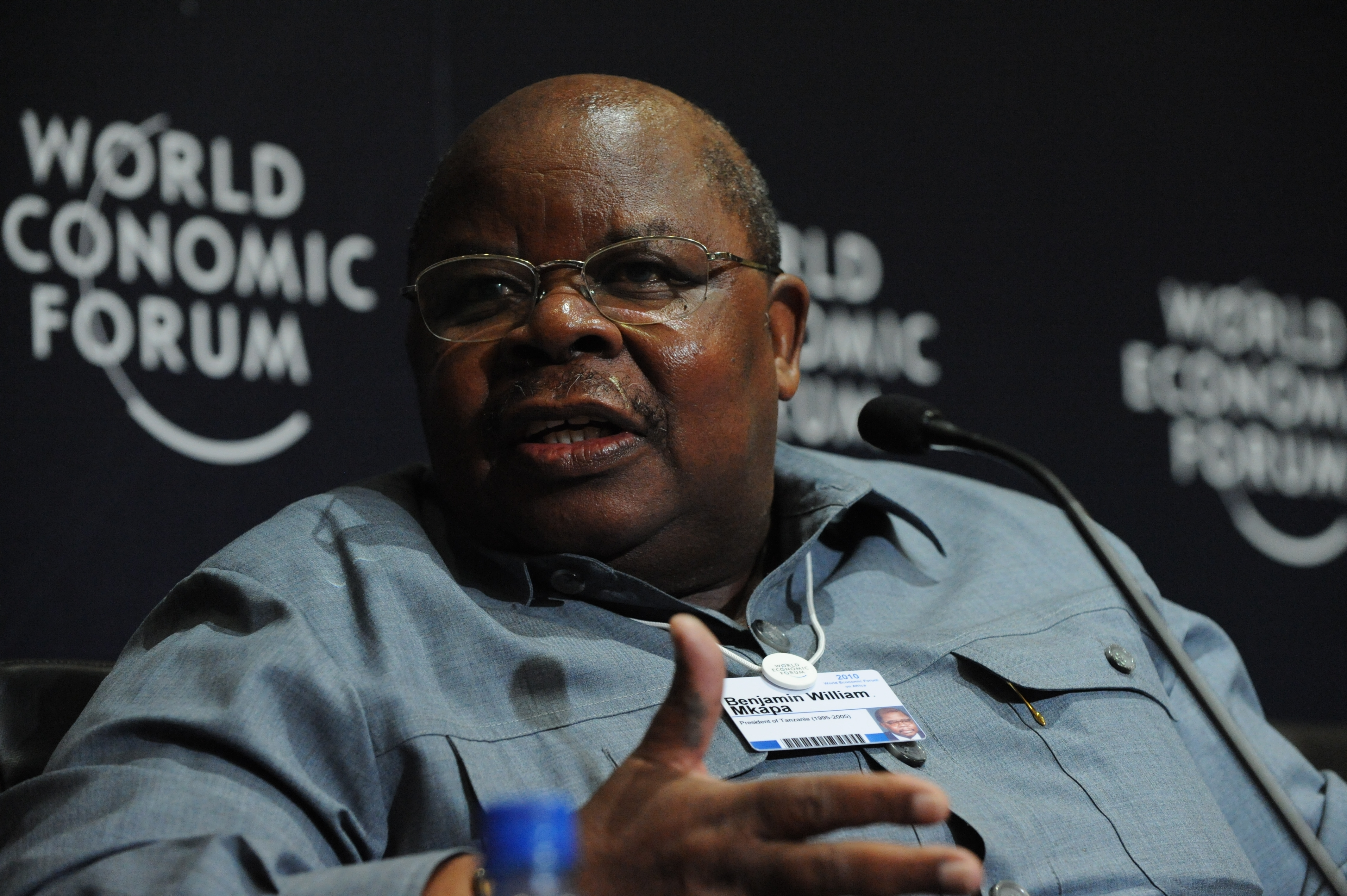 Benjamin William Mkapa, third President of Tanzania, during World Economic Forum on Africa 2010.